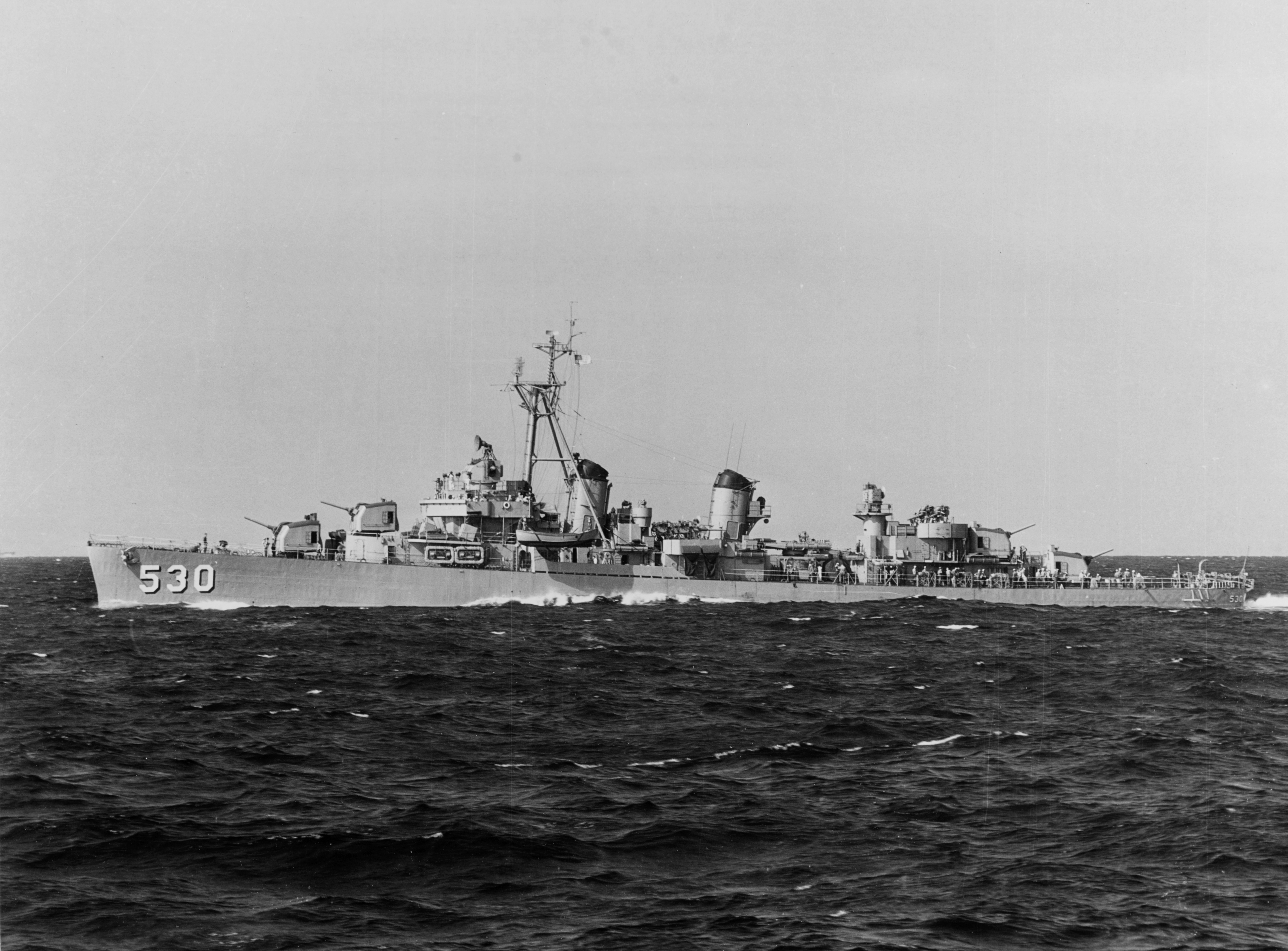 The U.S. Navy destroyer USS Trathen (DD-530) underway at sea on 3 September 1952.